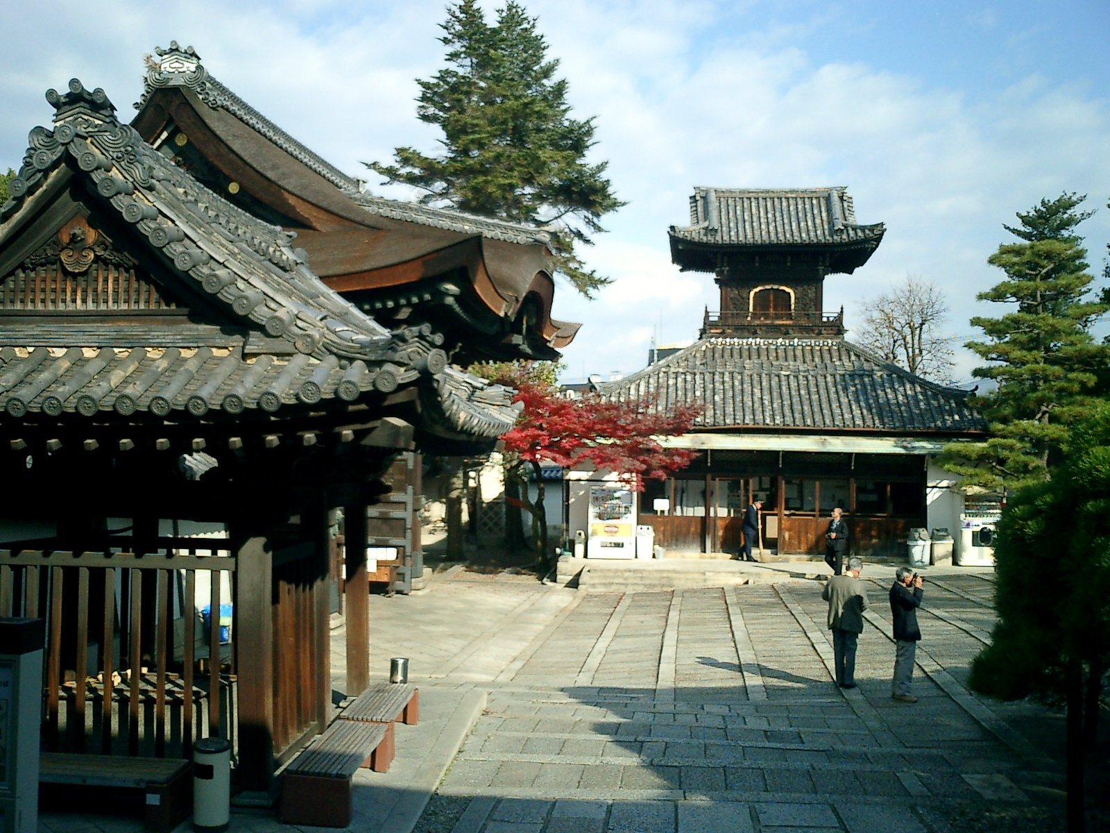 Kyoto, Japan